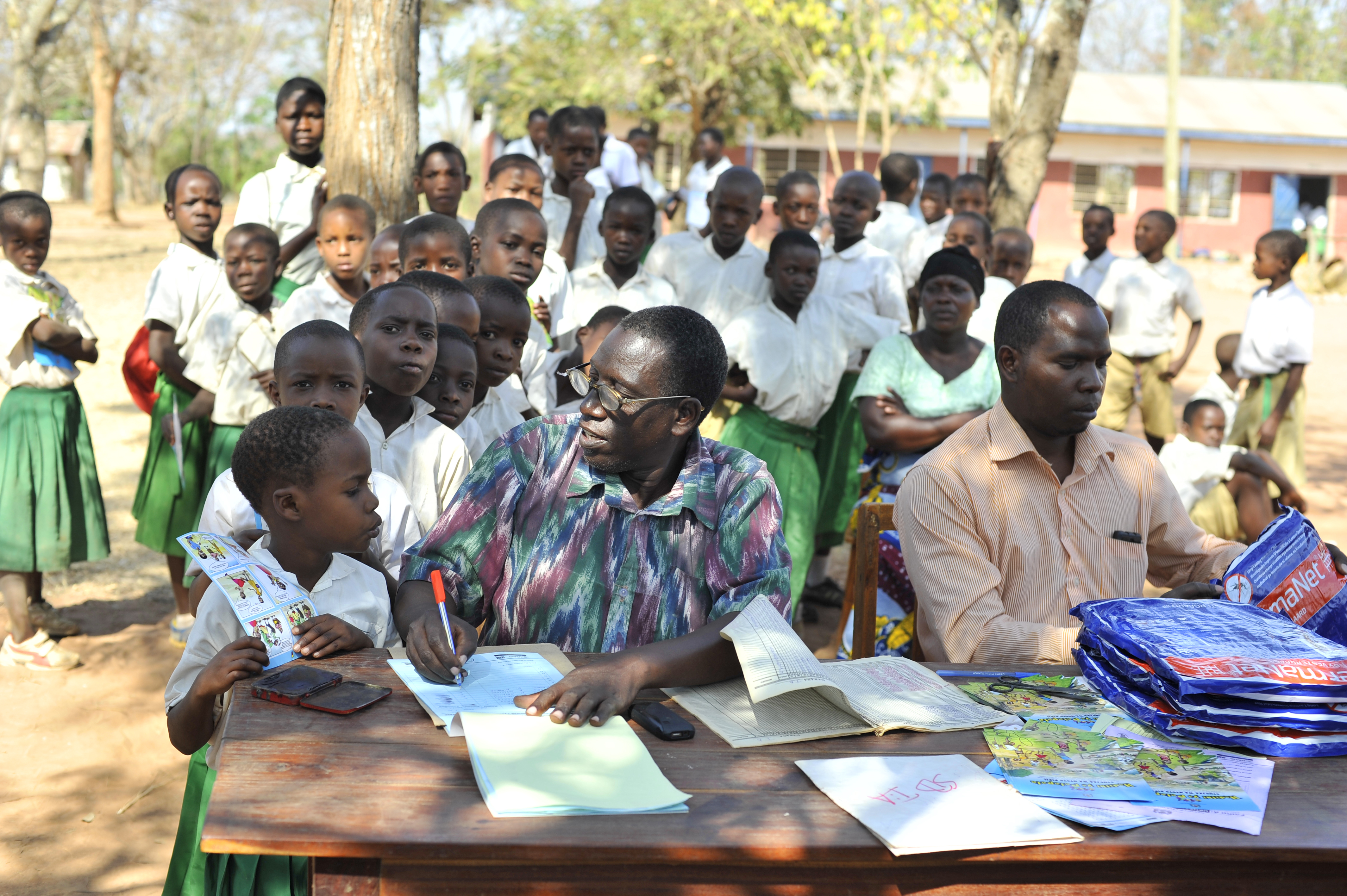 Students receive mosquito nets at Ilemela Primary school. Math teacher Rudonye Nkabodi and head teacher Cassian Simon take the lead on registering the children and handing them the nets. Credit: Riccardo Gangale/VectorWorks, Courtesy of Photoshare